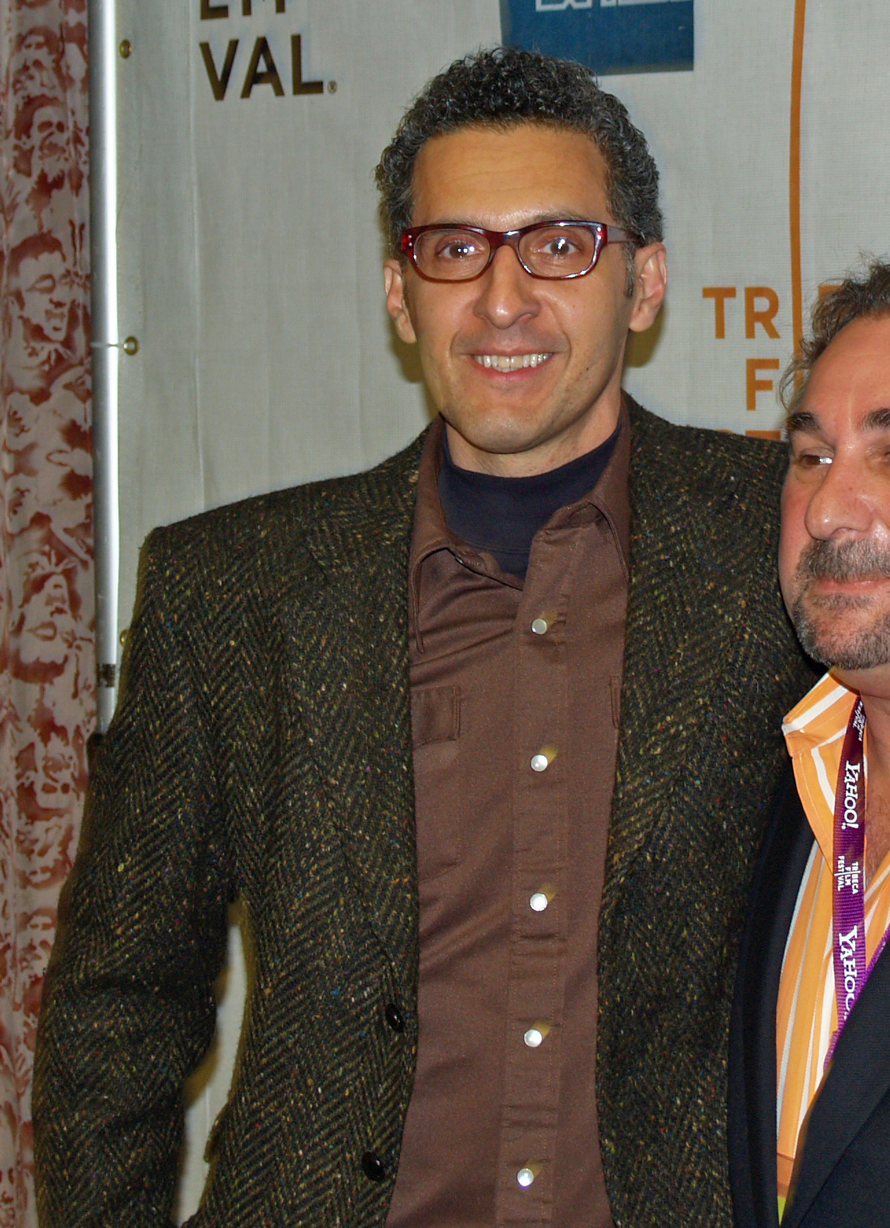 John Turturro